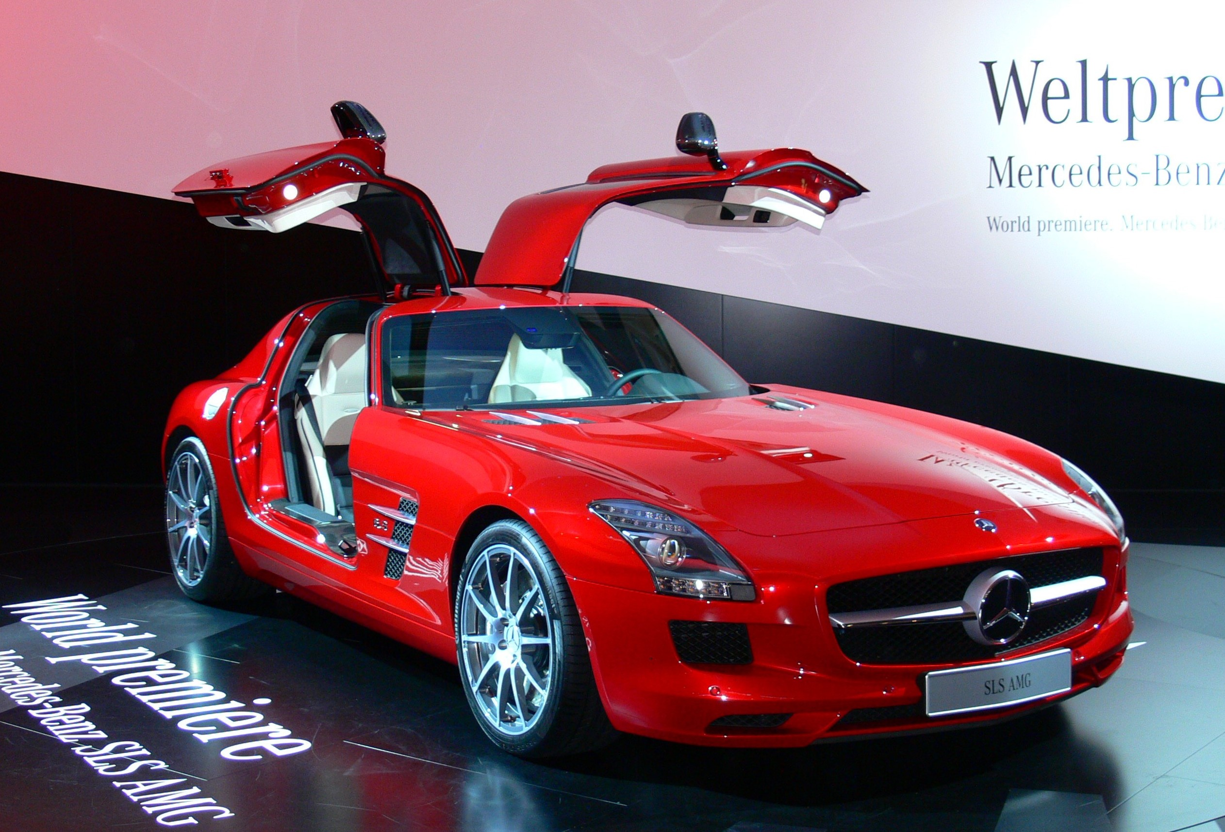 Mercedes SLS AMG, presented at the Internationale Automobil Ausstellung (IAA) at Frankfurt/Main, Germany